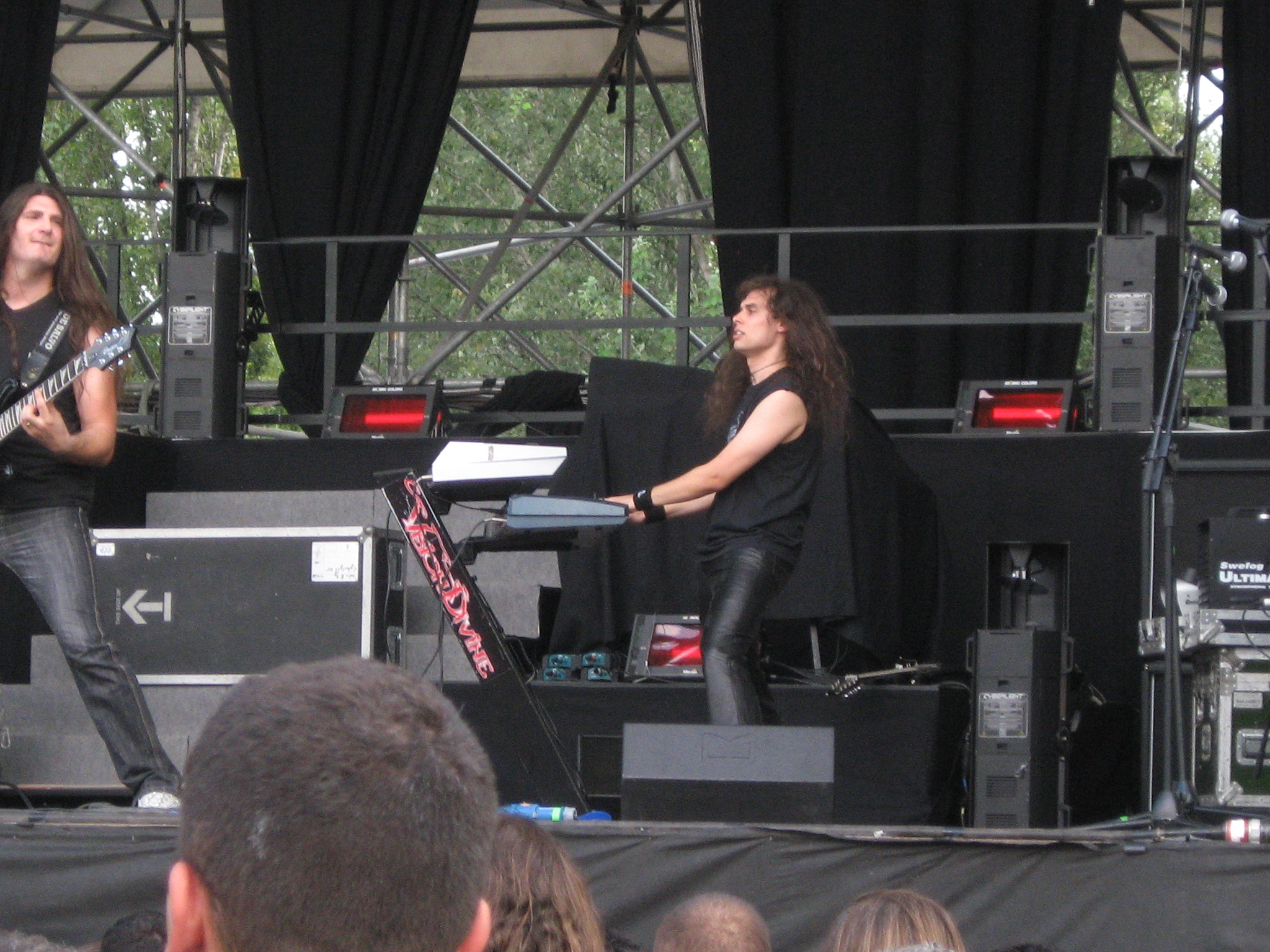 Vision Divine at Rockin' field festival in Milan, Italy (26 July 2008)